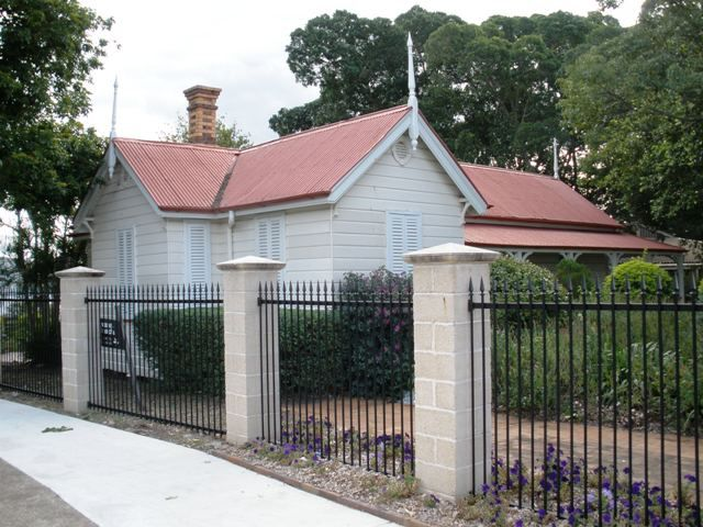 Ipswich Girls' Grammar Gatekeeper's Lodge